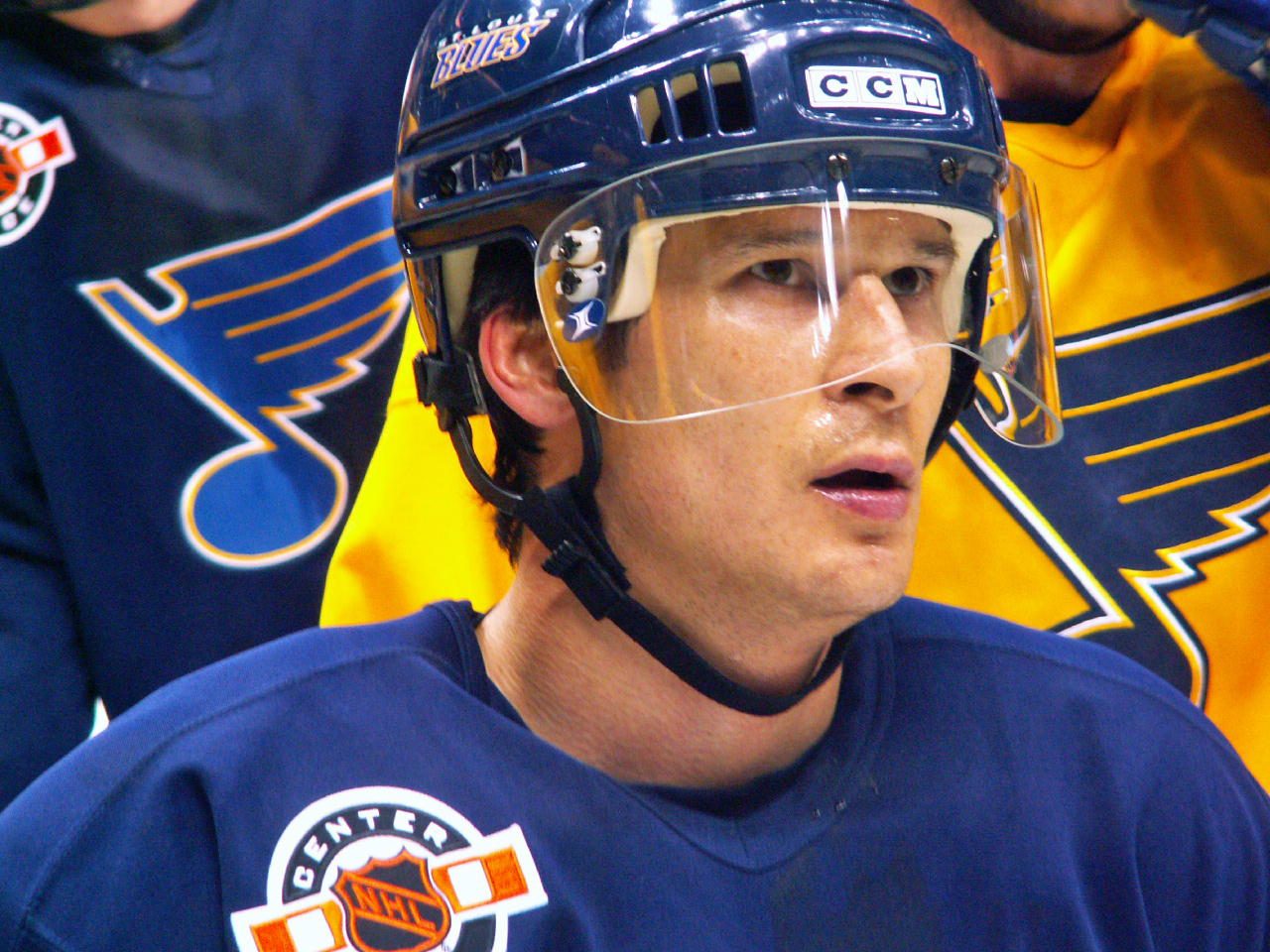 A photo I took of Paul Kariya at the 2008 Blues FanFest.